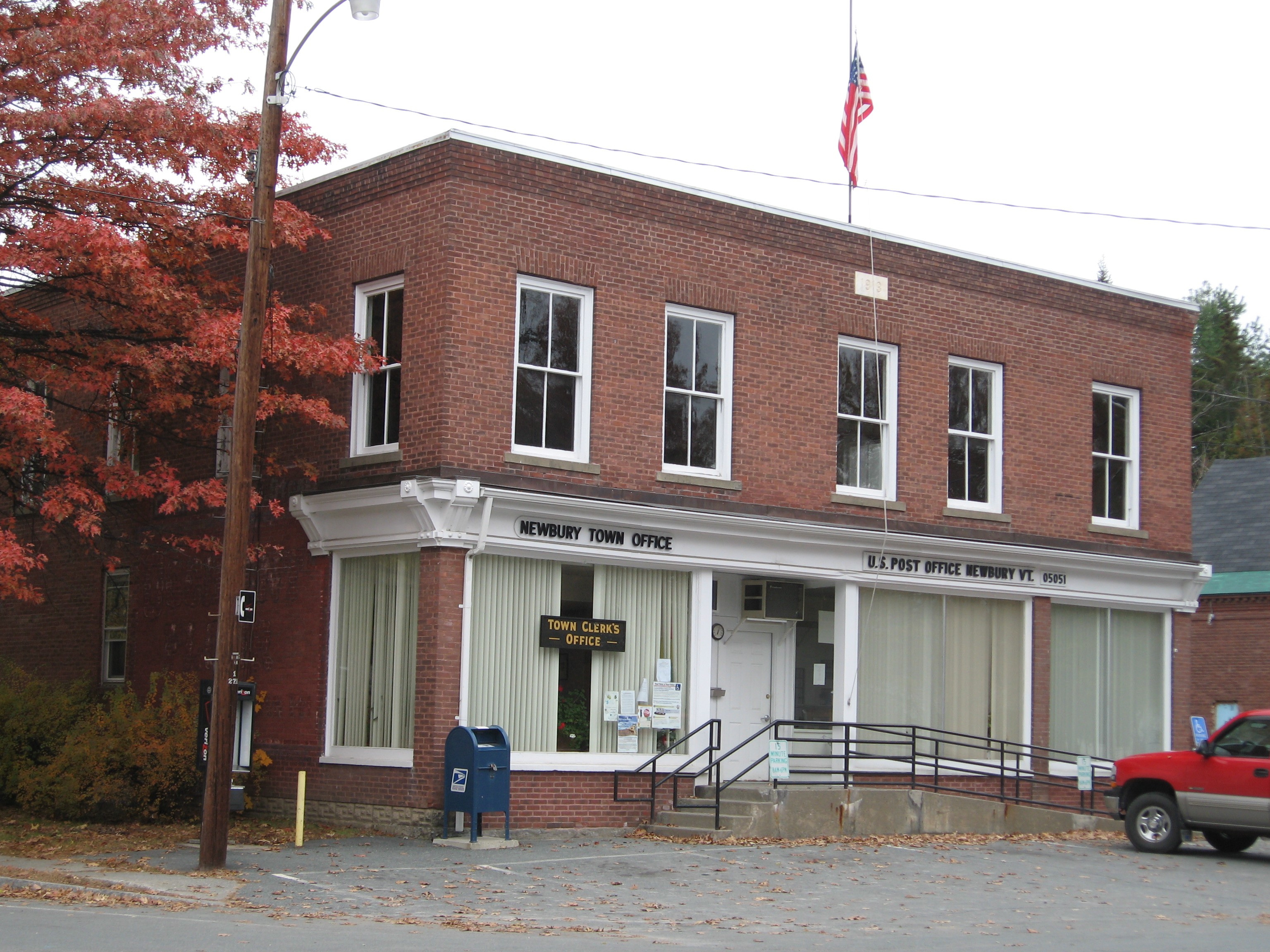 Town office and post office. This is a contributing building in the Newbury Village Historic District on the NRHP and was built in 1913